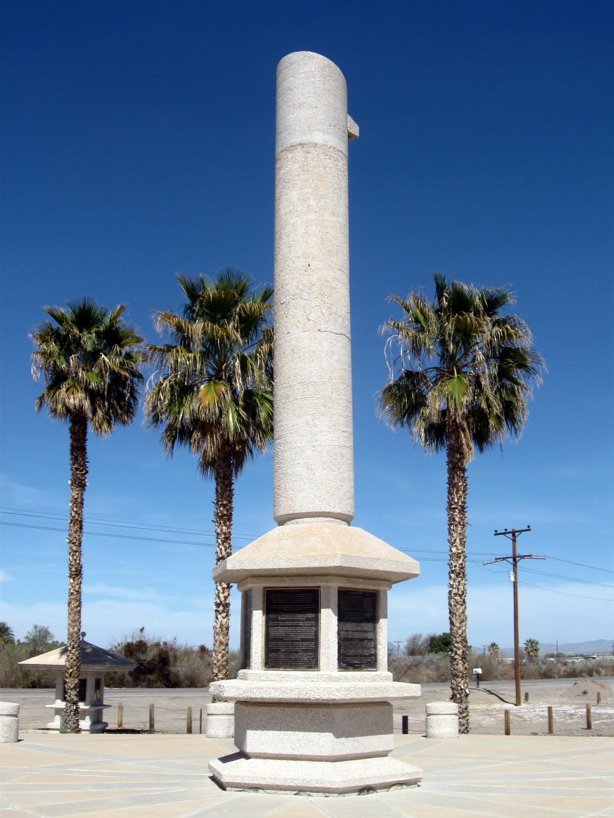 Japanese Internment Camp Memorial Poston, AZ